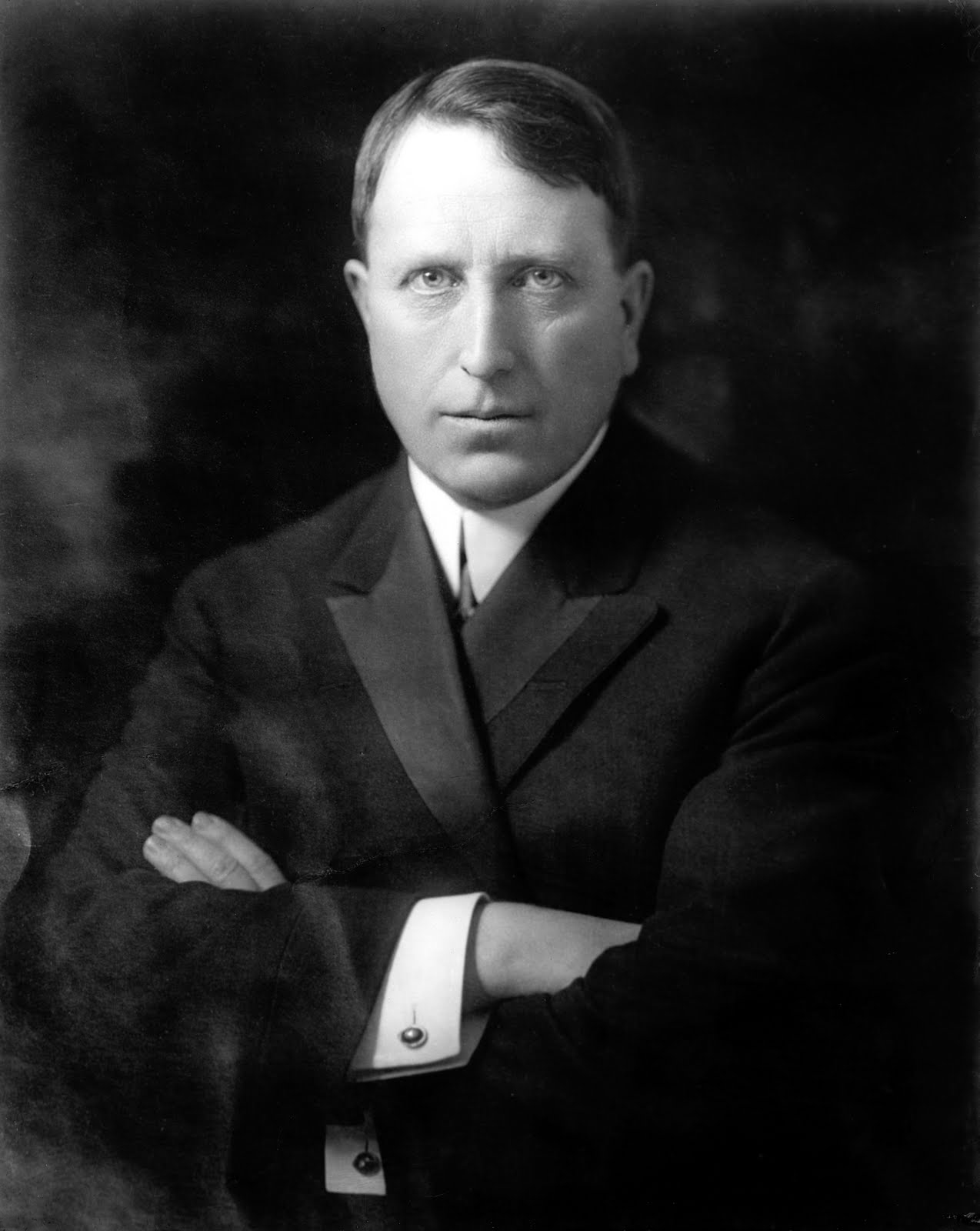 William Randolph Hearst (1863–1951)